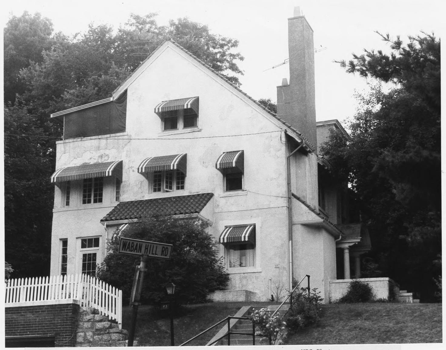 Reginald A. Fessenden House, Newton (Middlesex County, Massachusetts) cropped This image or media file contains material based on a work of a National Park Service employee, created as part of that person's official duties. As a work of the U.S. federal government, such work is in the public domain in the United States. See the NPS website and NPS copyright policy for more information. Object location42° 20′ 24″ N, 71° 10′ 18″ W